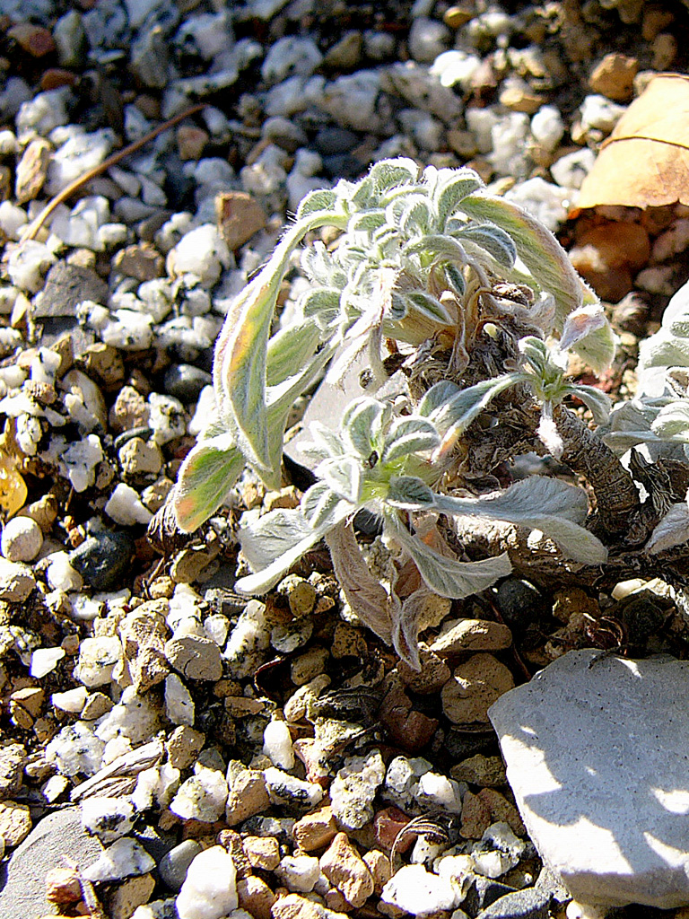 Plant "Convolvulus Boissieri" (from Spain & Balkans)